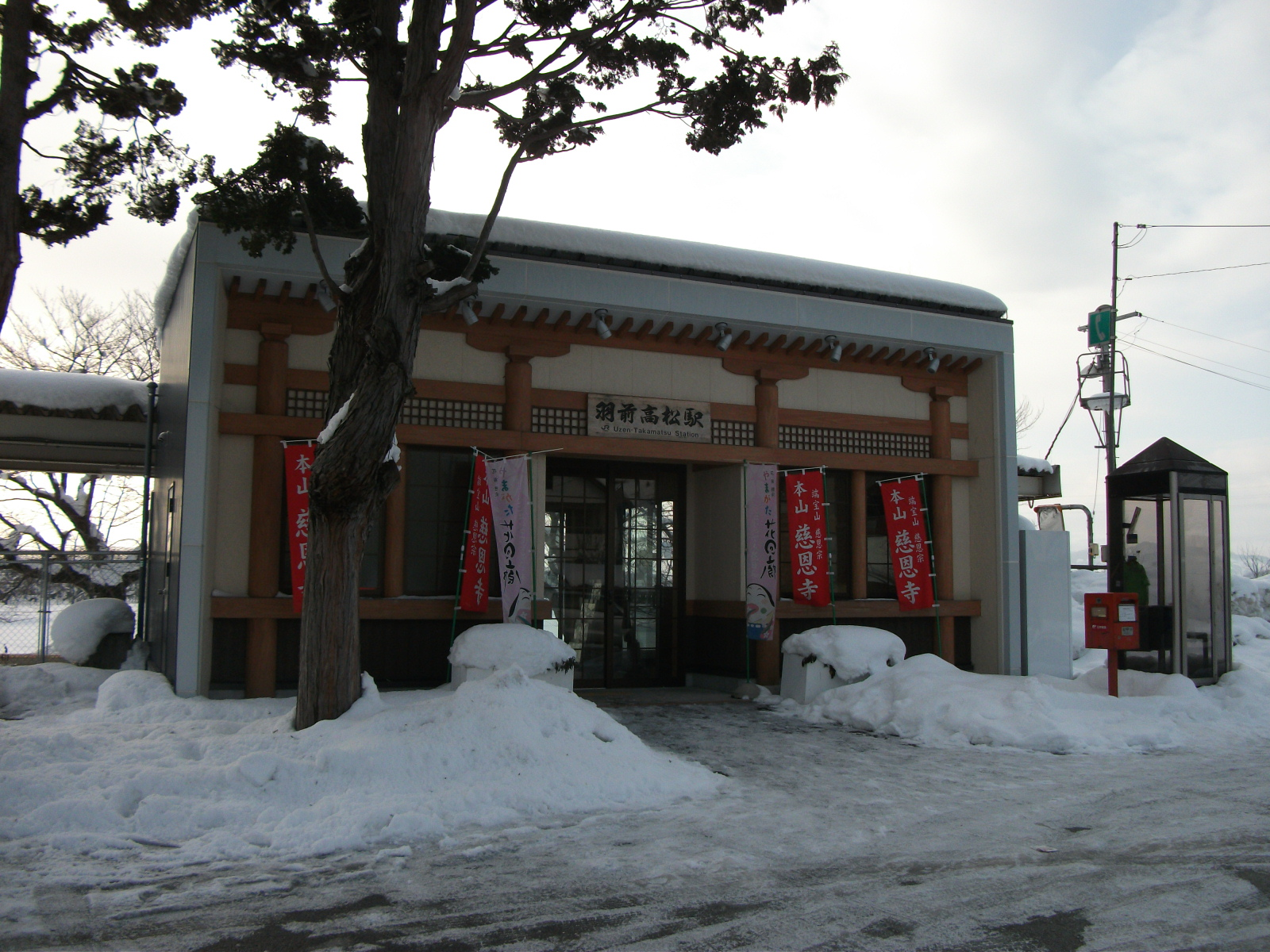 Snow-capped Uzen-Takamatsu Station on Aterazawa Line